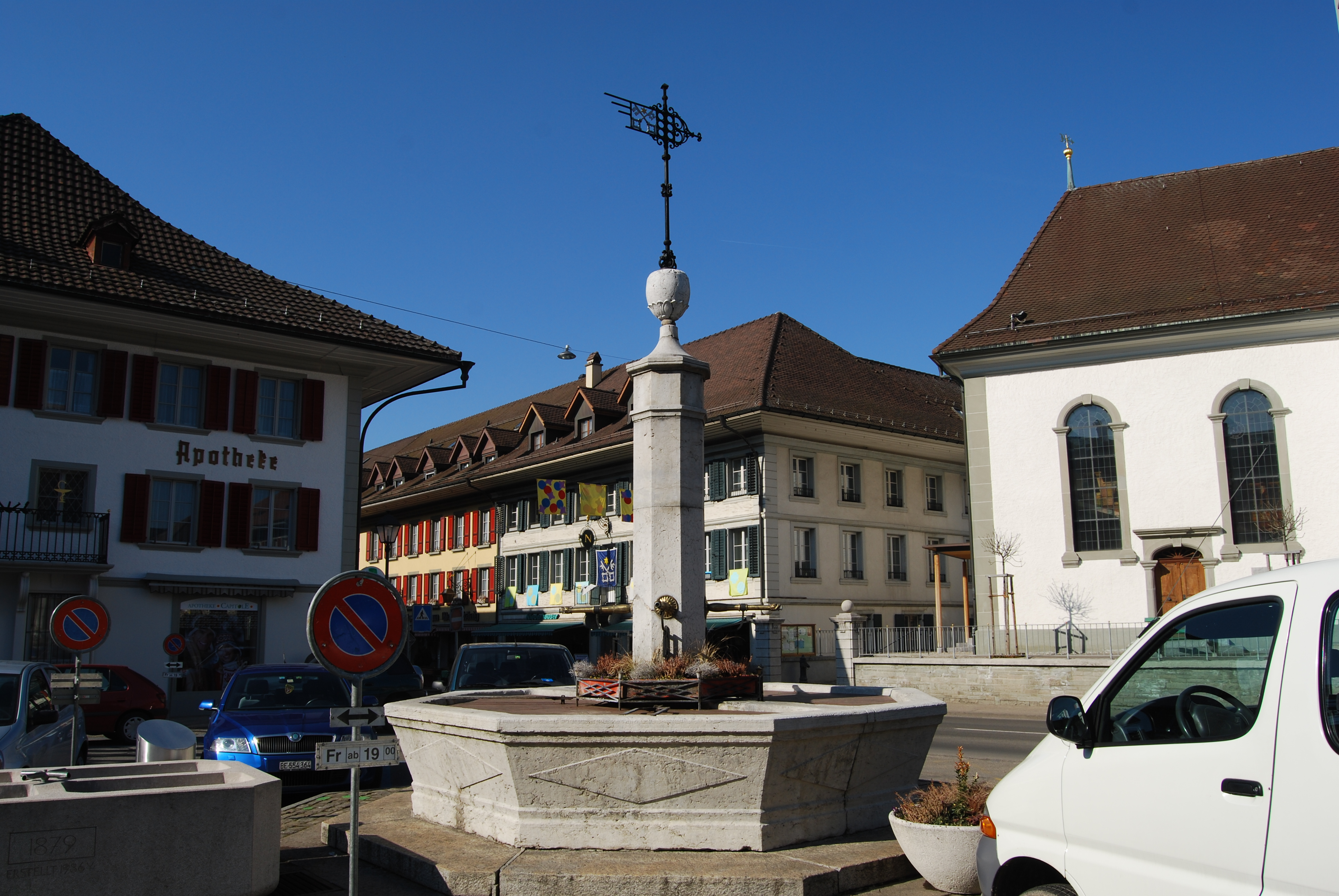 Huttwil, canton of Bern, SwitzerlandEsperanto: Huttwil, Kantono Berno, Svislando